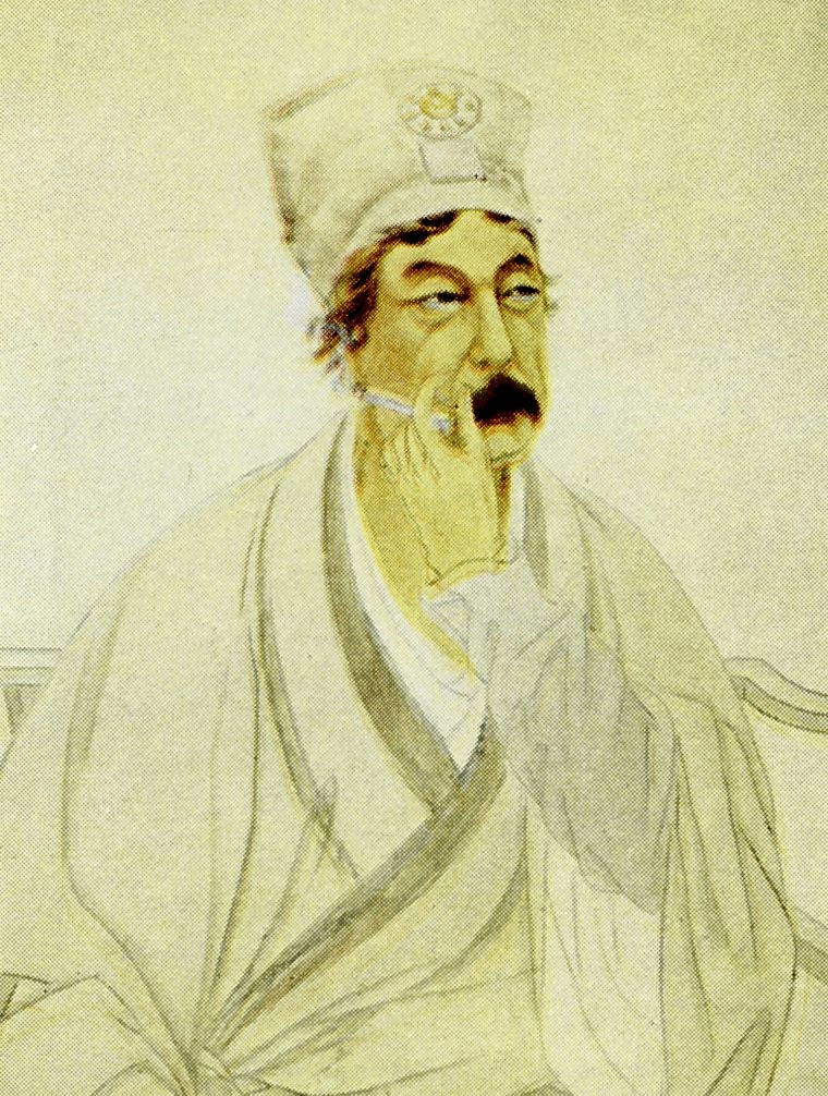 Okakura, sketch by Kanzan